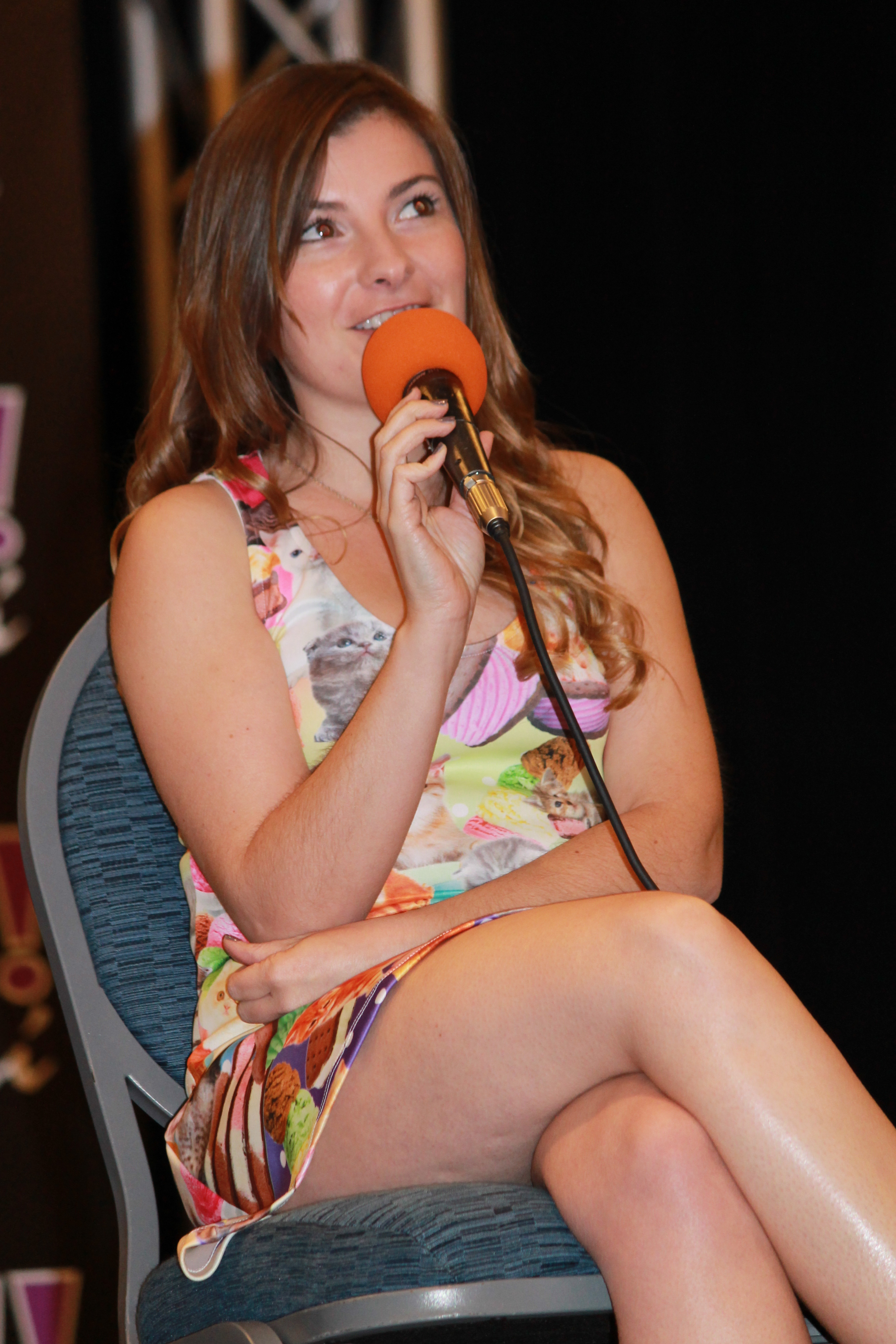 Cassandra Morris in 2014